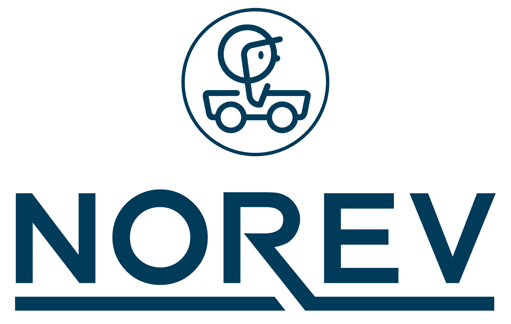 NOREV logo 2014